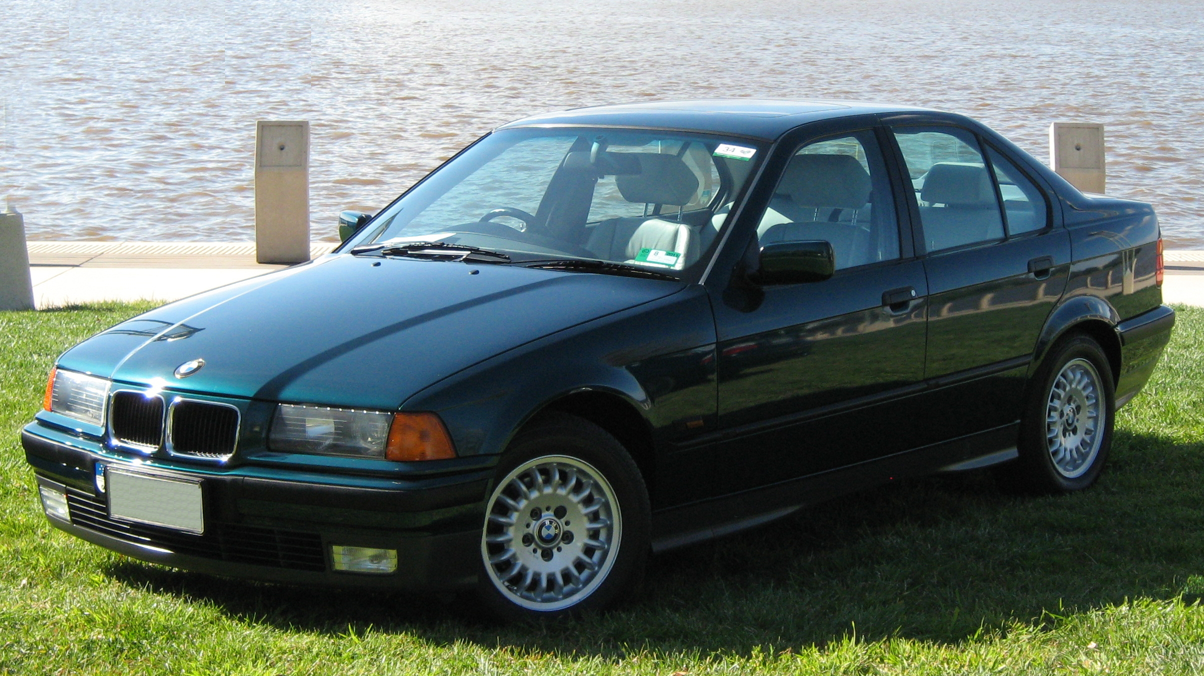 Australian spec BMW 320i,Boston Green, light grey leather interior manufactured July 1994. Photographed in Canberra, Australia in 2012